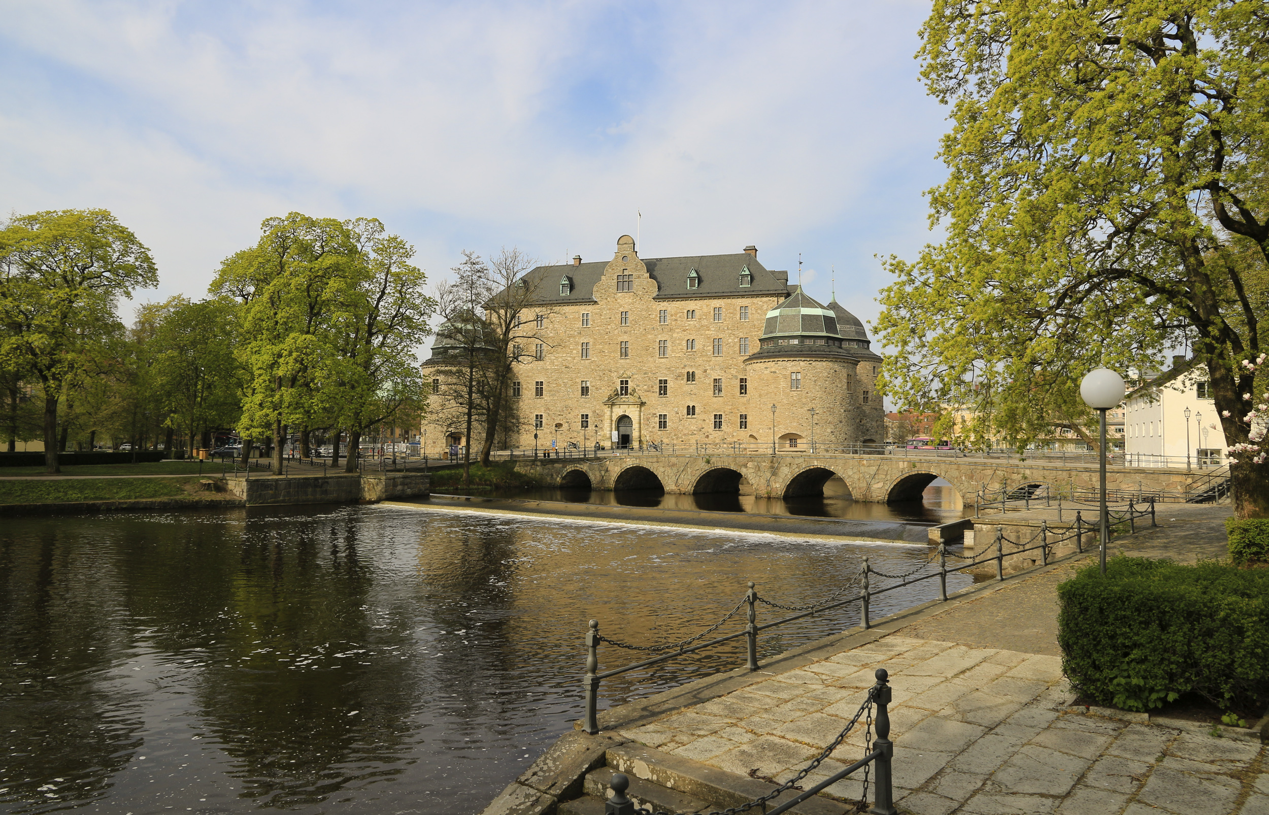 Örebro slott